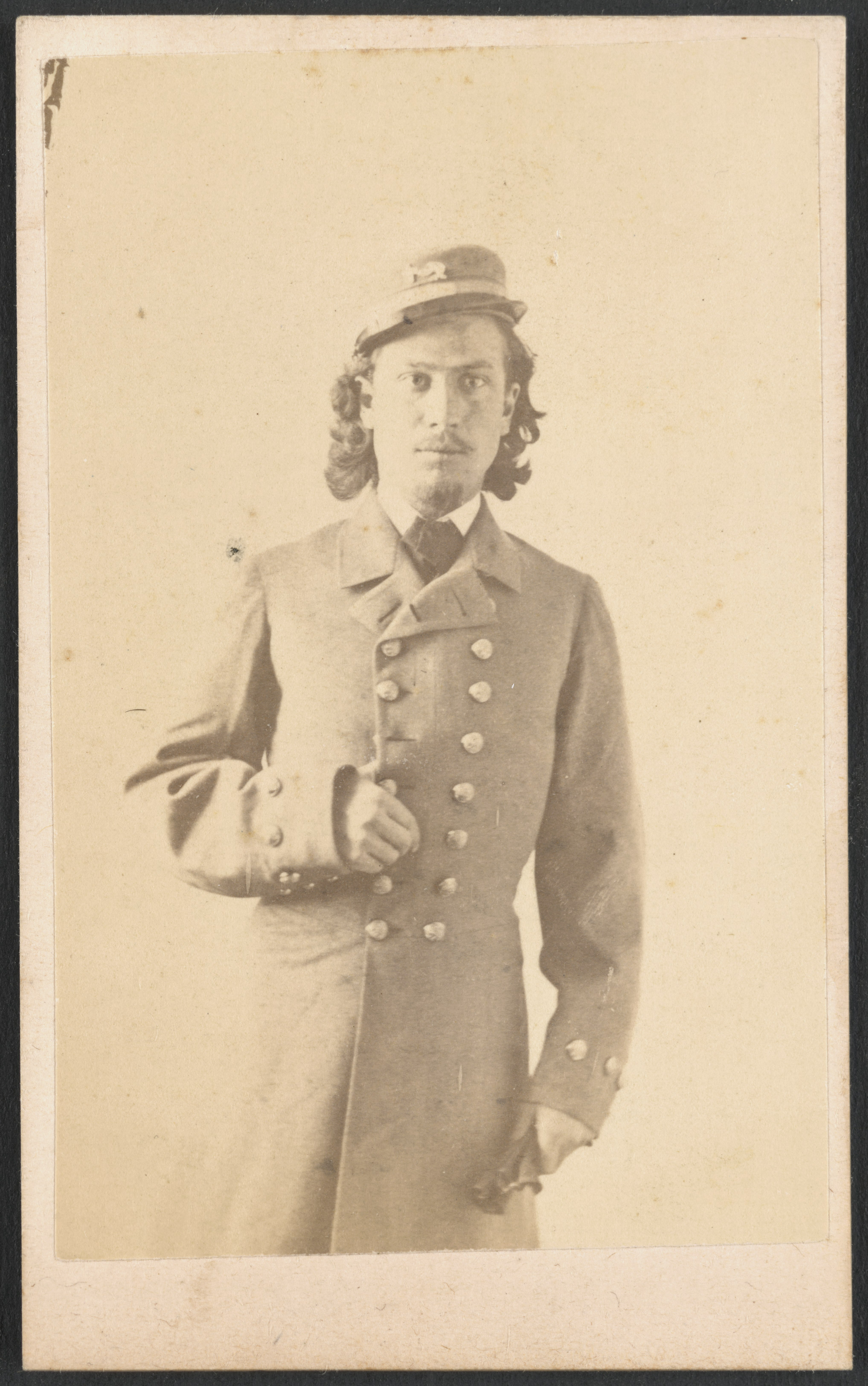 Title: F.B. Boville [i.e. Beville] / J.W. Black, 173 Washington St., Boston. Abstract/medium: 1 photograph : albumen print on card mount ; mount 11 x 7 cm (carte de visite format)